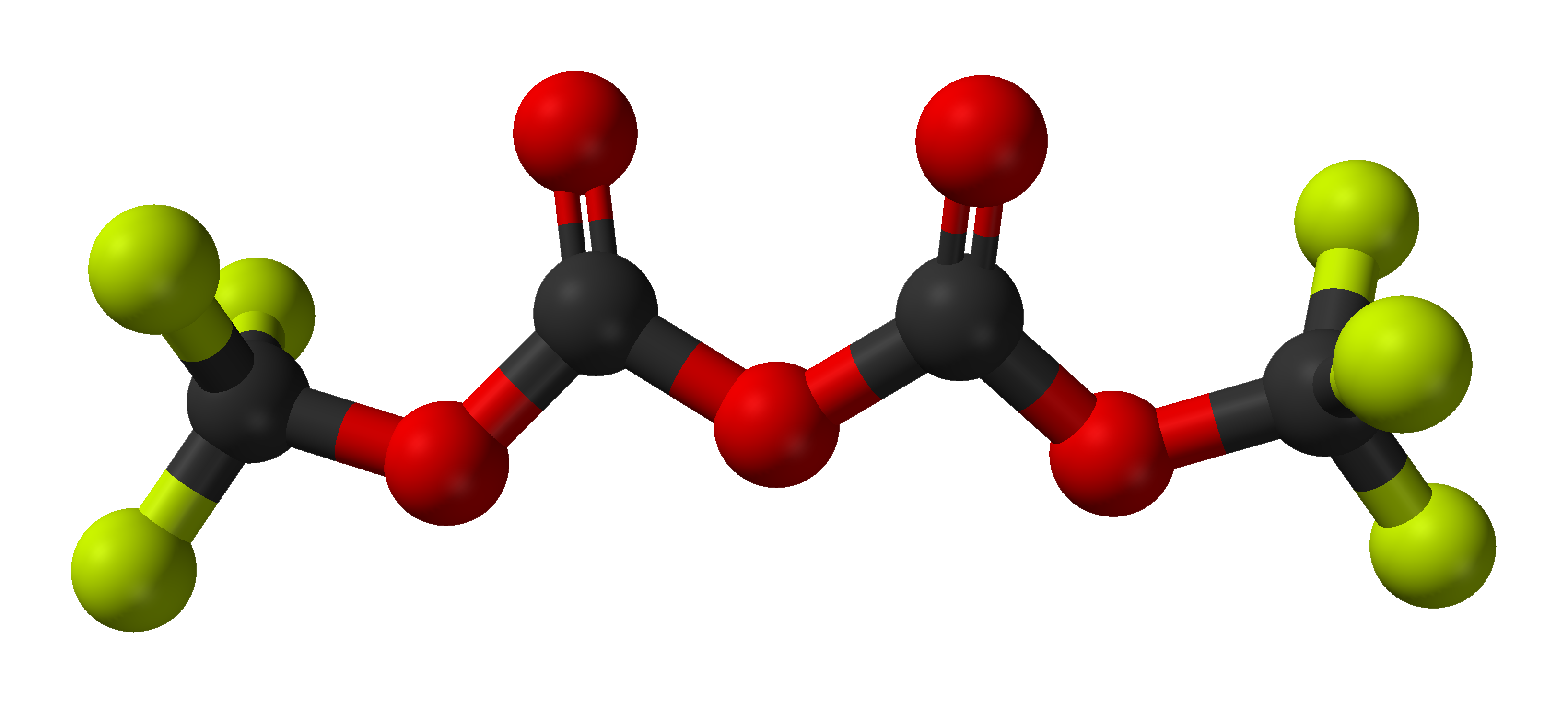 Ball-and-stick model of the bis(trifluoromethyl) dicarbonate molecule, C4F6O5, as found in the crystal structure. See P. García et al, J. Fluorine Chem. 2005, 126, 984-990. Colour code: Carbon, C: black Fluorine, F: yellow-green Oxygen, O: red Model manipulated and image generated in Accelrys DS Visualizer.